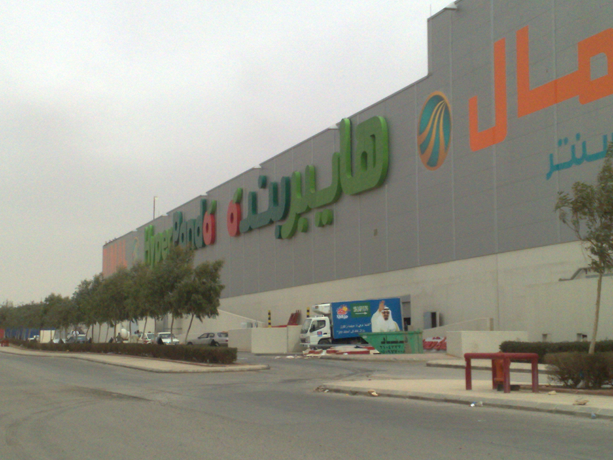 Hyper Panda in Rimal center